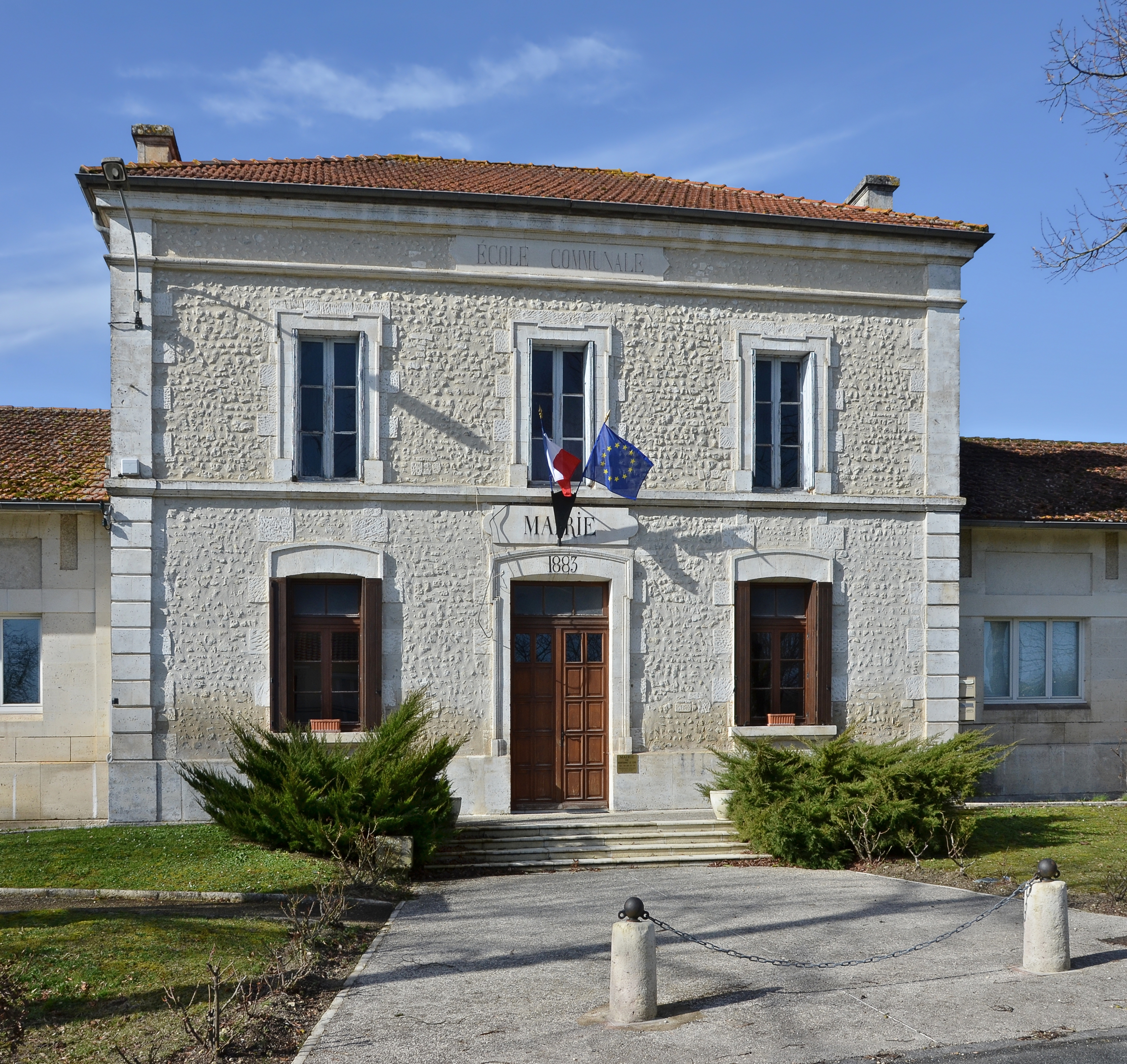 Facade of the town hall of Montignac-le-Coq, Charente, France.